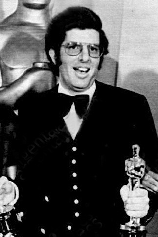 Press photo of Marvin Hamlisch receiving three Academy Awards.